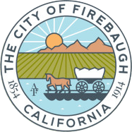 Seal of Firebaugh, California